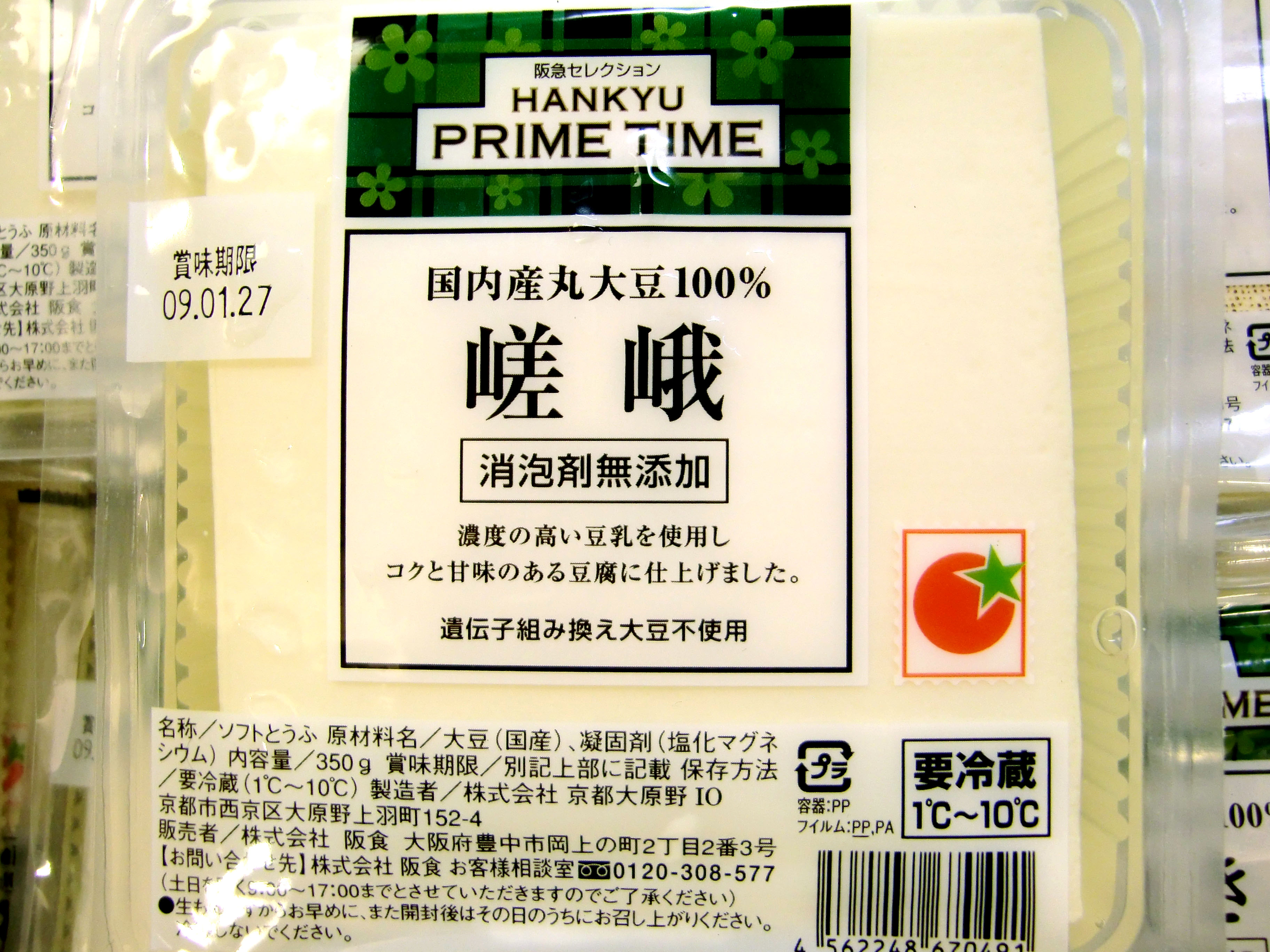 Hankyu Prime Time "SAGA"(TOFU).